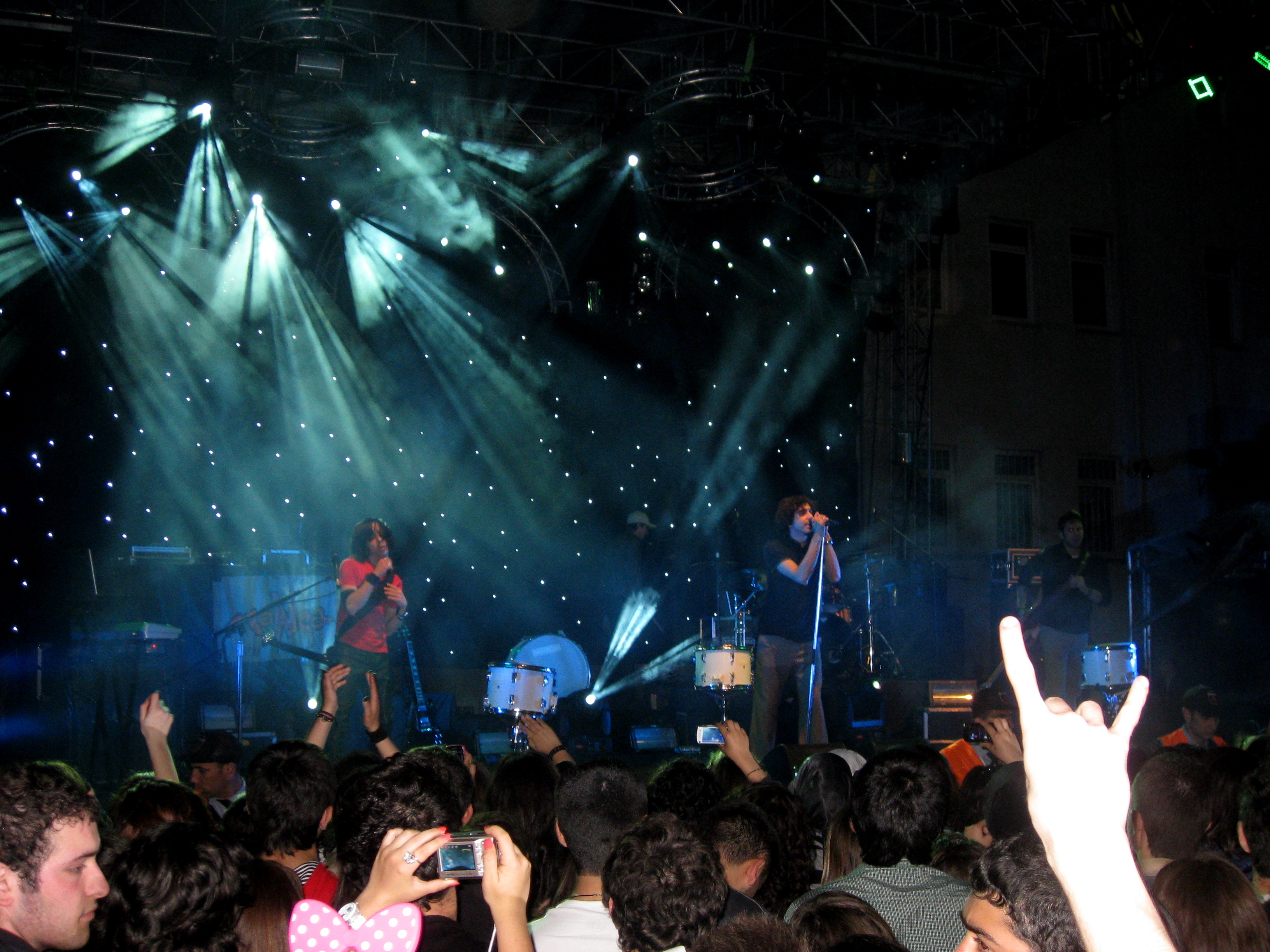 Manga in Marmara University Spring Fest,2011,Istanbul